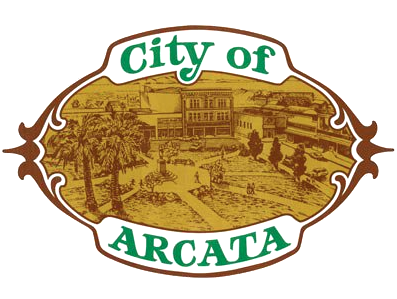 Seal of City of Arcata